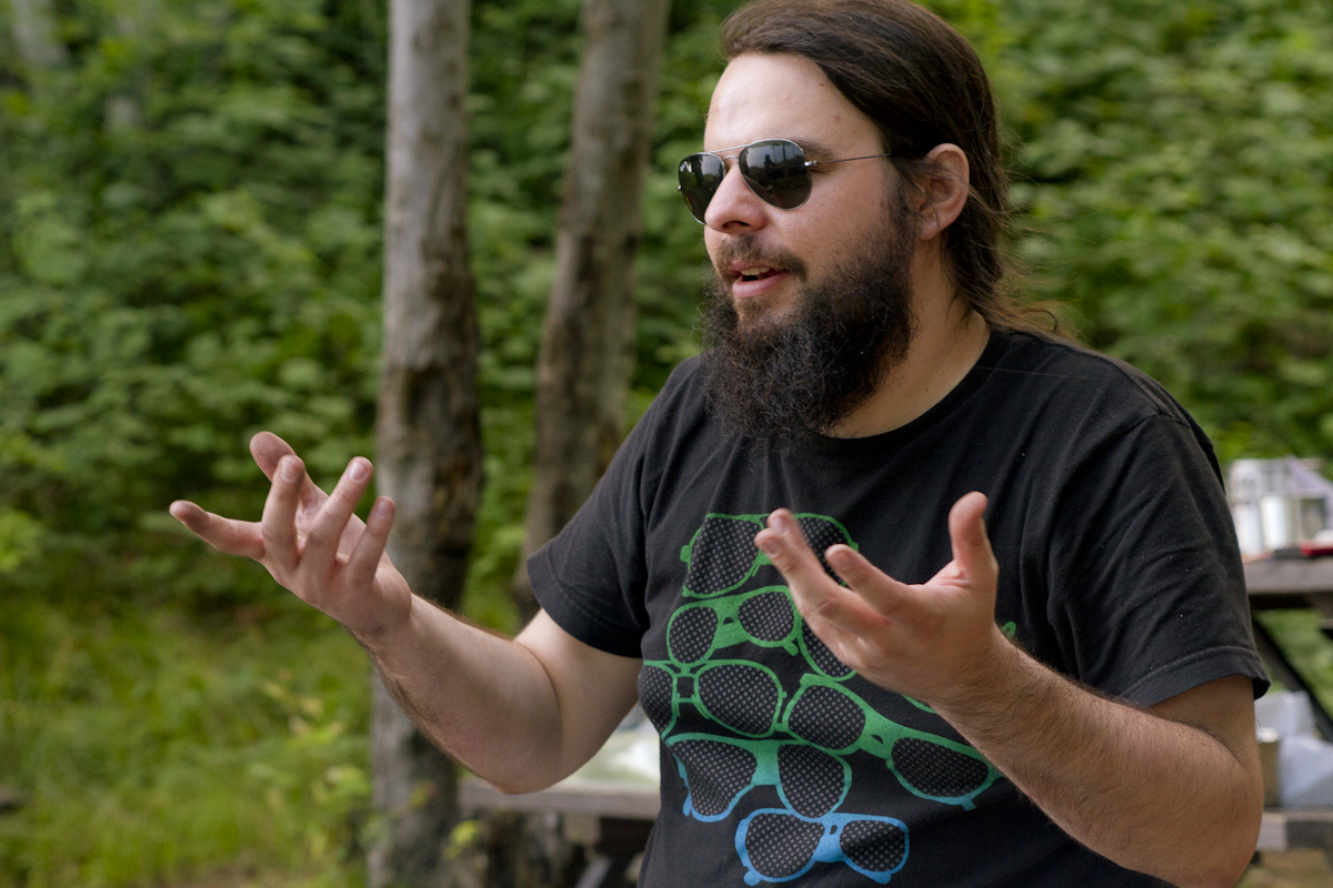 Shawn McGrath